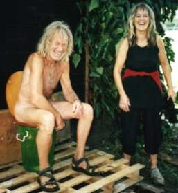 Penny rimbaud & gee Vaucher photographed by Graham Burnett (Quercus Robur) 2002